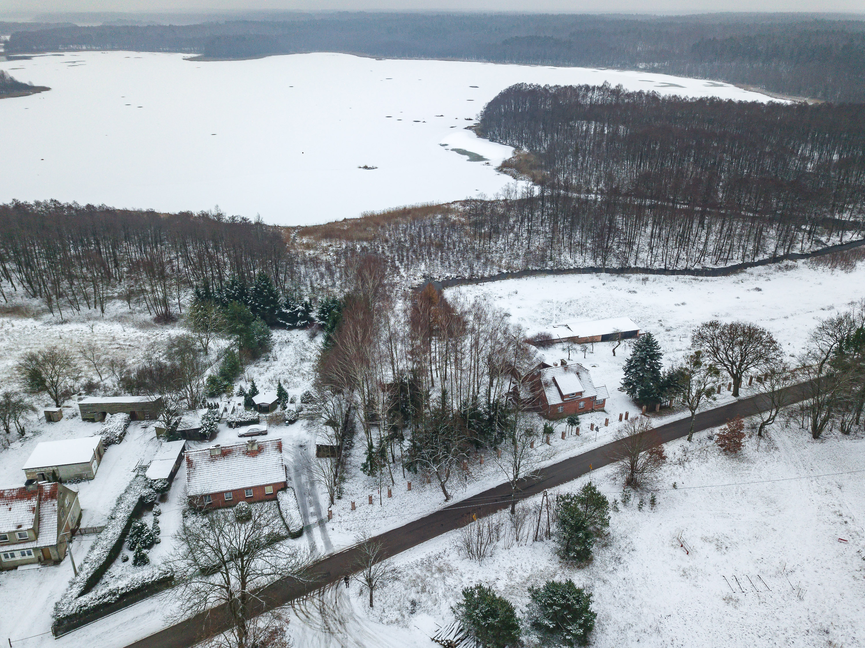 Zbigniew Nienacki’s house in Jerzwałd